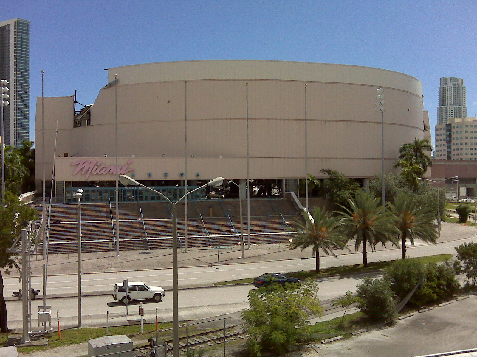 The Miami Arena being demolished, two days after its roof had been imploded by demolition crews